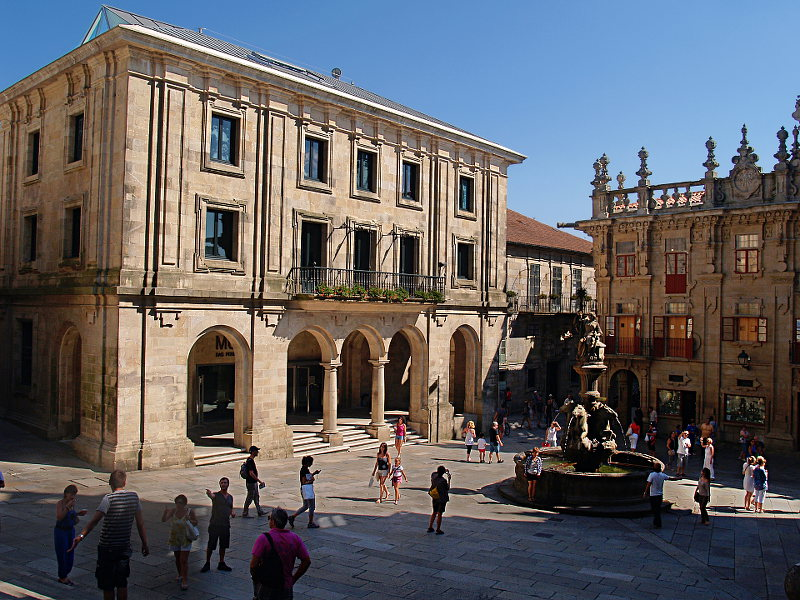 Santiago de Compostela, Praterias Square, Museo de las Peregrinaciones (left) and Casa del Cabildo (right)